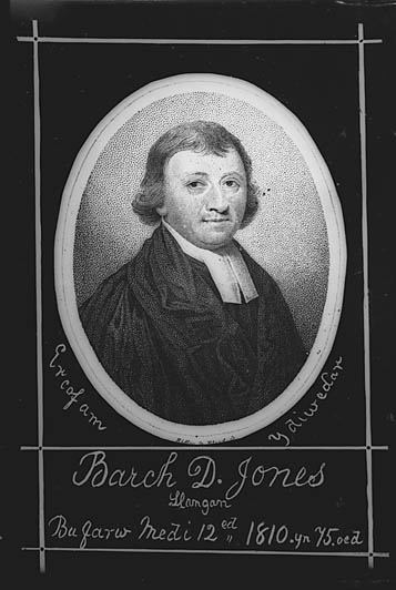 1 negative : glass, wet collodion, b&w ; 11 x 16.5 cm.